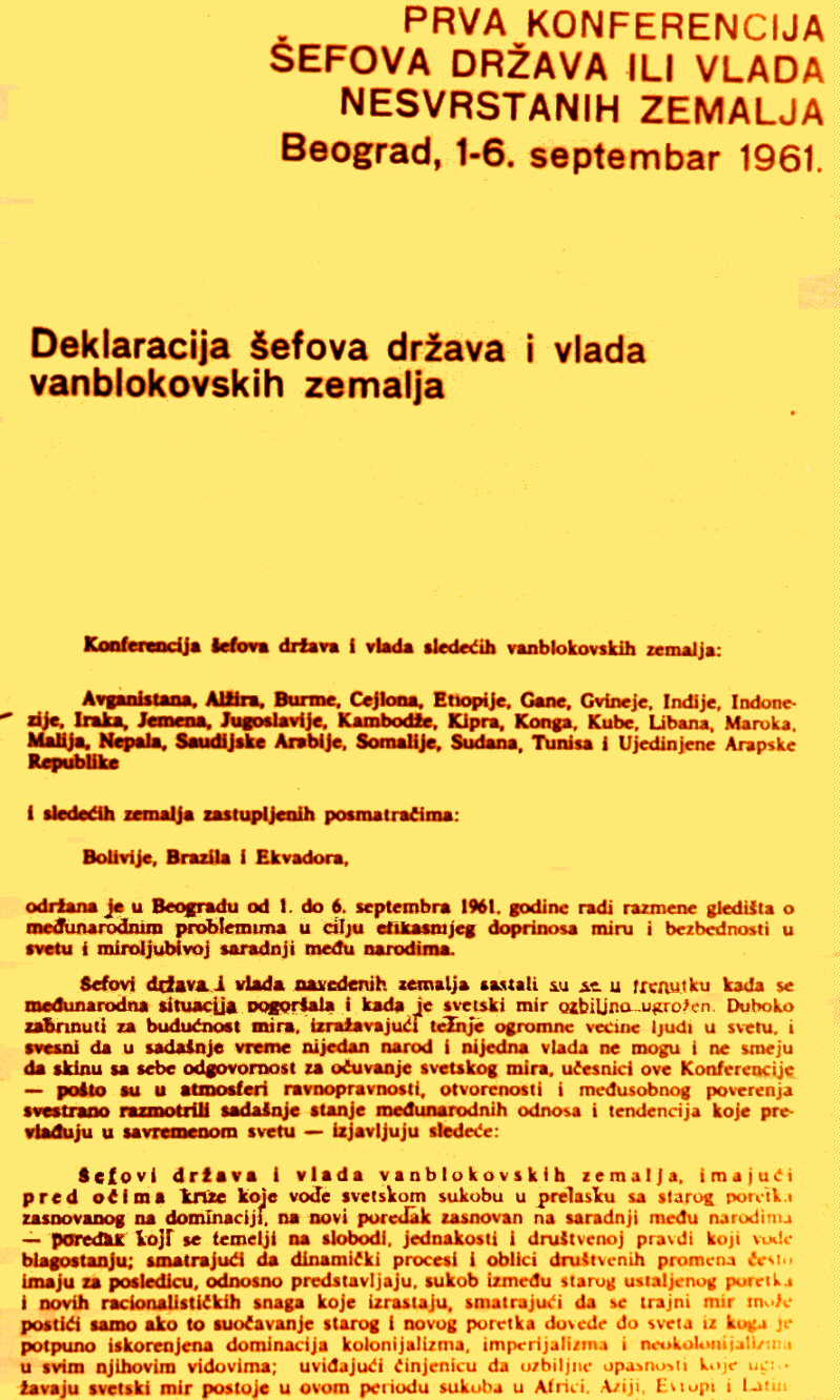 Declaration of the leaders of nonaligned states and government, Ist Conference of the leaders of nonaligned states and governments